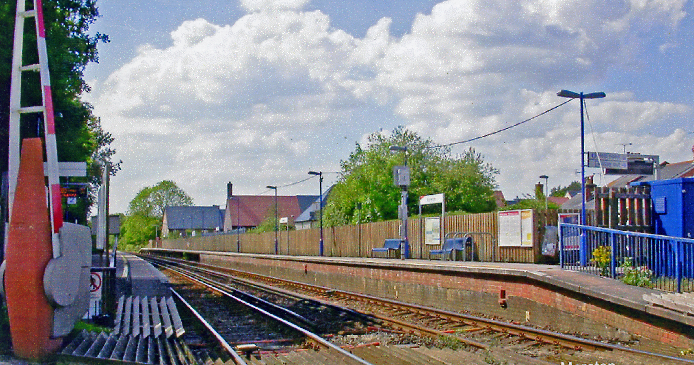 Moreton station. View westward from level-crossing, towards Dorchester South and Weymouth: ex-LSW (London - Southampton) - Bournemouth Central - Poole - Dorchester - Weymouth main line, electrified to Bournemouth 1967, to Weymouth 1988.